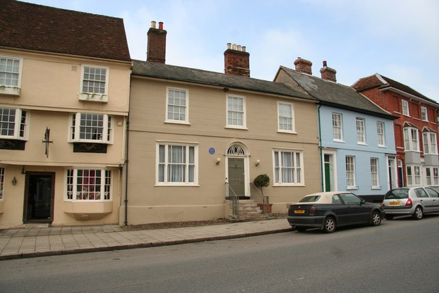 The Manse 17th century house also known as 'The Steps' with a blue plaque acknowledging that it was once the home of Gustav Holst